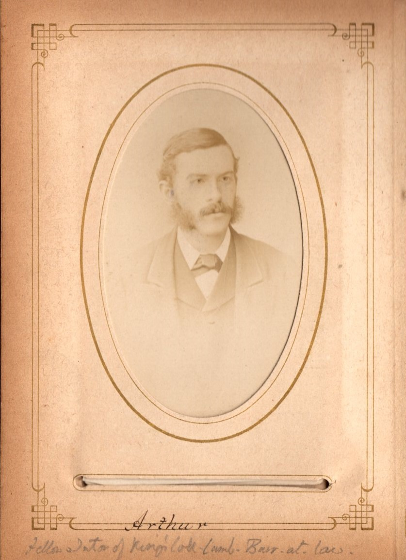 Undated picture of Arthur Augustus Tilley